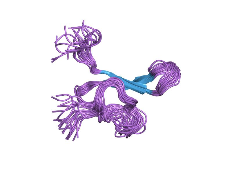 Cartoon representation of the molecular structure of protein registered with 1lmm code.